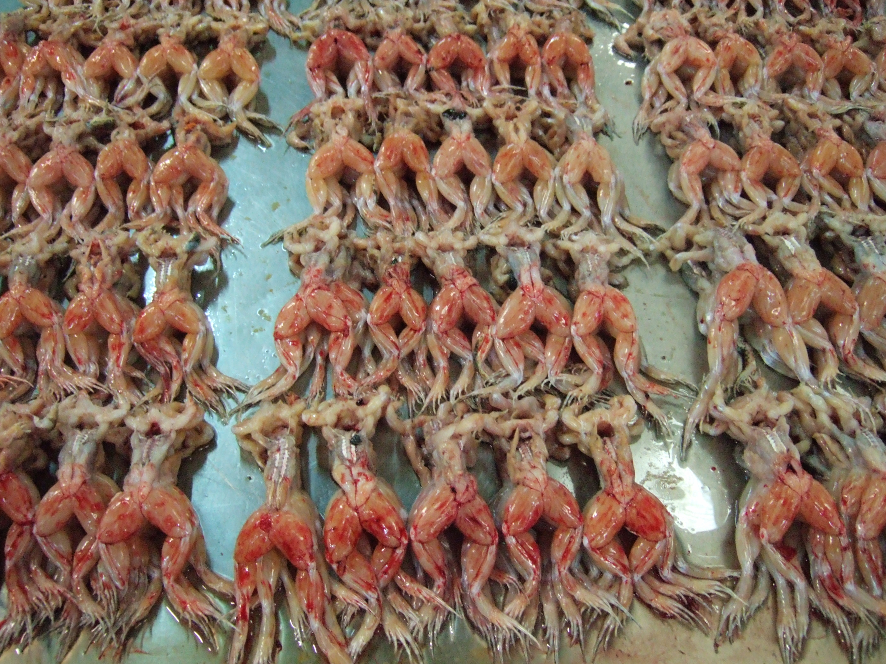 Frog legs for cooking